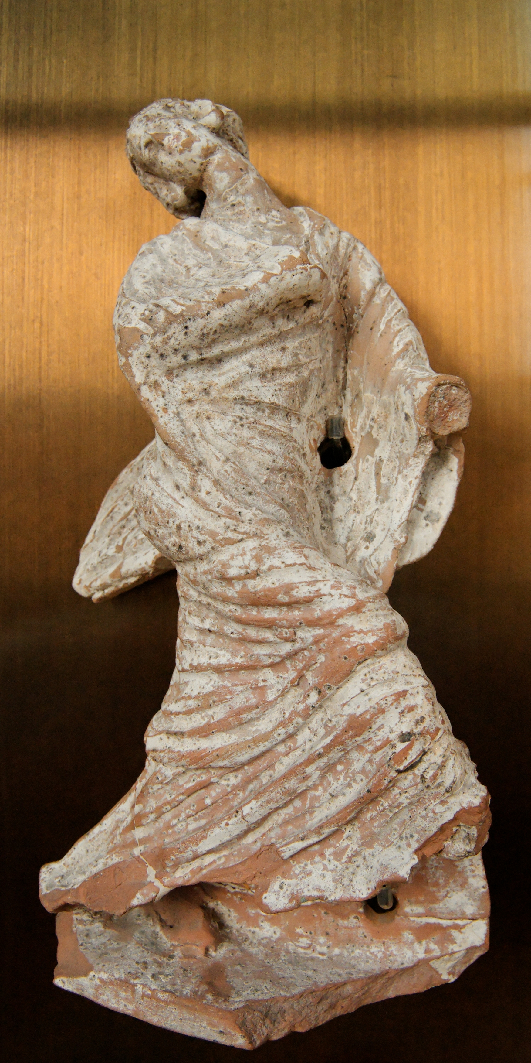 Wounded Niobid. Terracotta figurine of Gnathia or Canosa, 4th–3rd centuries BC